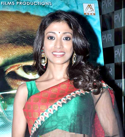 Paoli Dam saree image